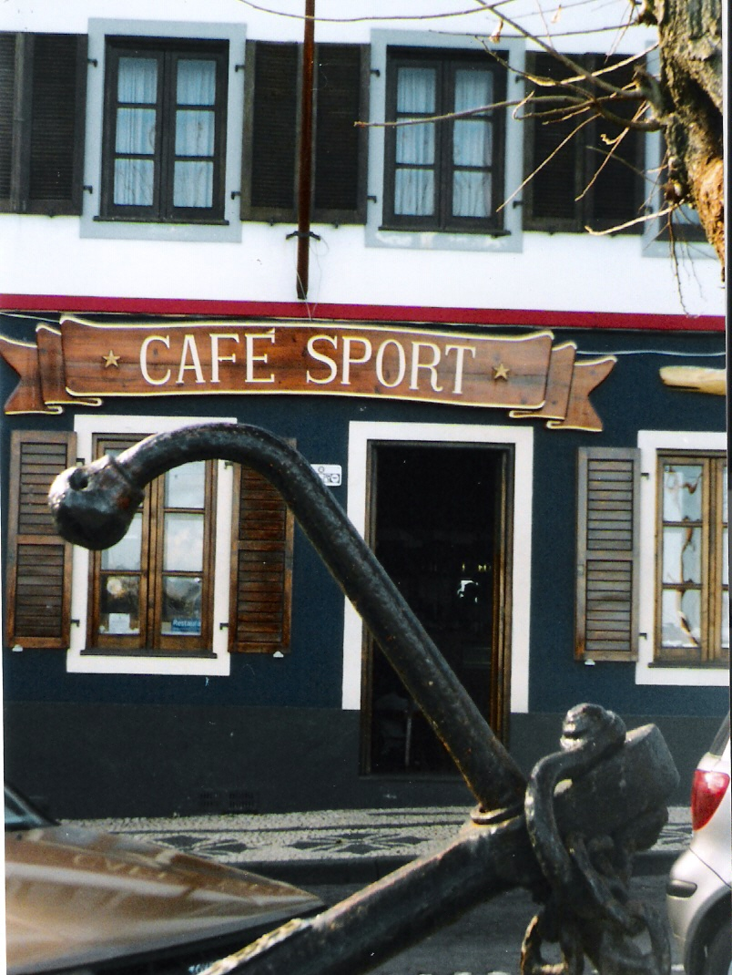 Peter Café Sport, Horta